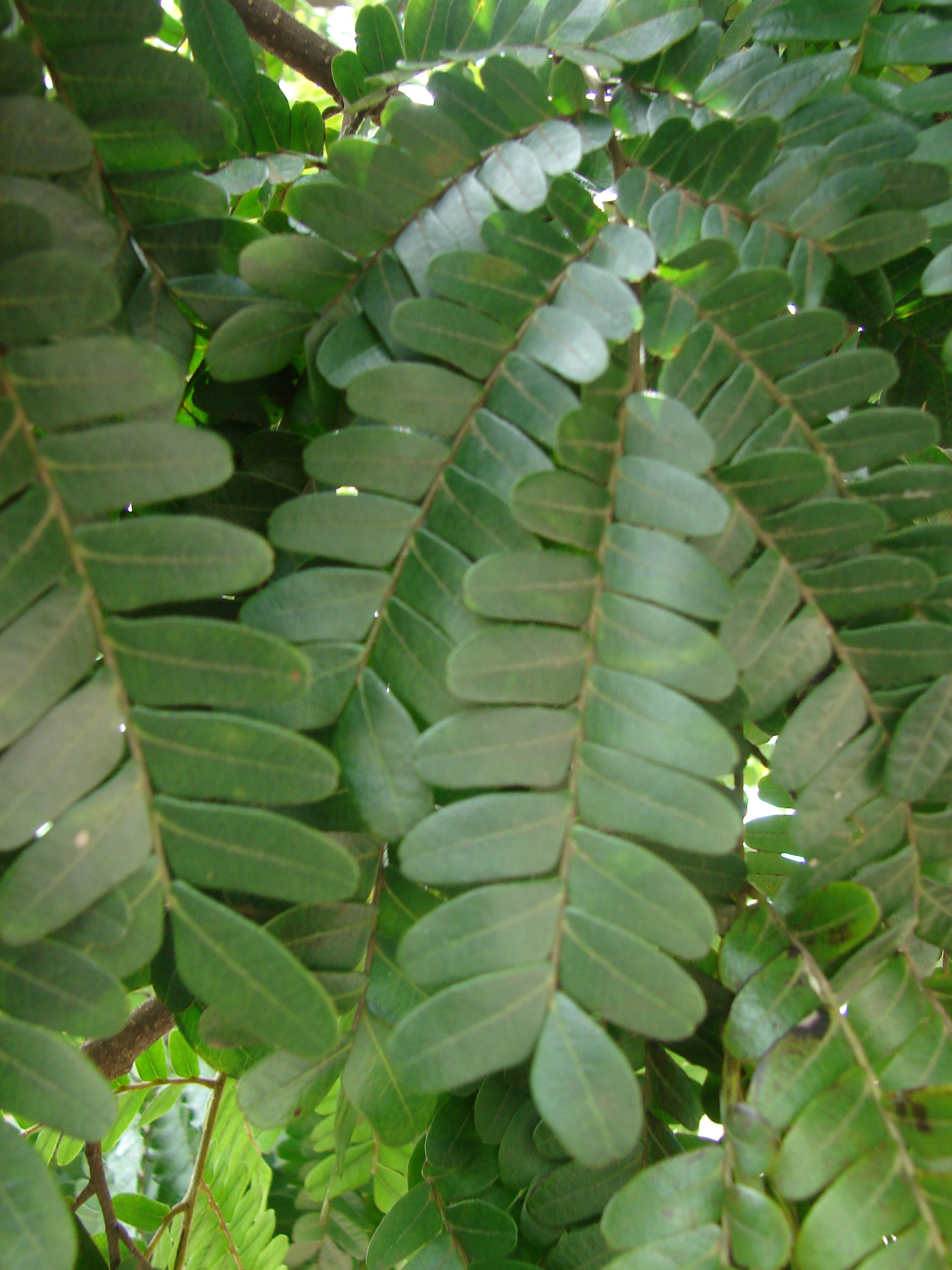 Caesalpinia echinata leaves detail. Detalhe da folha do Pau Brasil